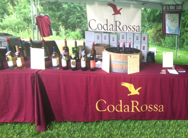 A picture of the tent for Coda Rossa Winery at the Demarest Farms Wine Festival in Hillsdale, NJ. Coda Rossa is a member of the Garden State Wine Growers Association, and participates in many wine festivals each year.